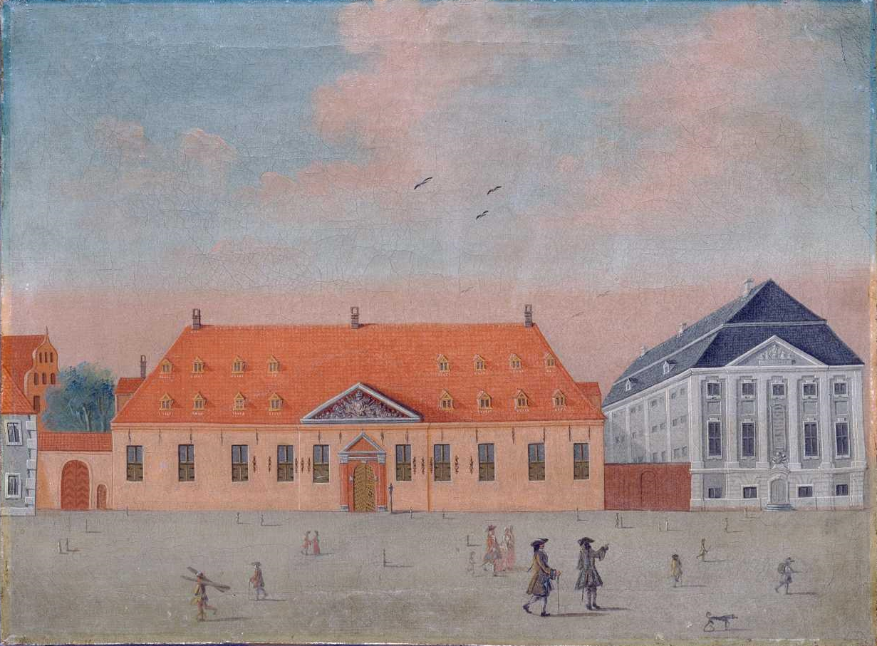 The royal canon foundry Ghæthuset on Kongens Nytorv in Copenhagen, Denmark. It was located across present day Tordenskjoldsgade and was demolished in 1872. The first Royal Theatre is seen to the right.g.